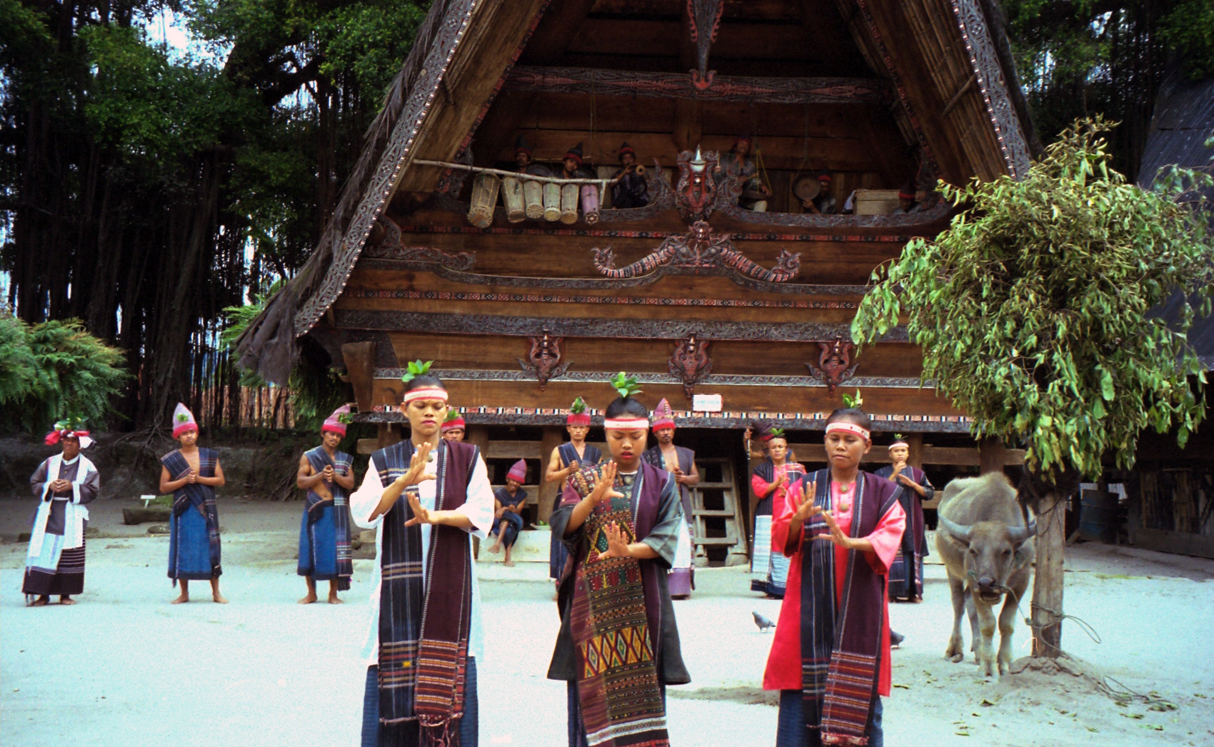 Samosir Island. A different village with performers. The musicians accompanying the dancers are above them inside the building.